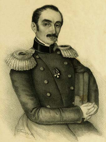 Old Picture. Mikhail Reyneke, Russian admiral. Isle of Reyneke in Sea of Japan was named after him